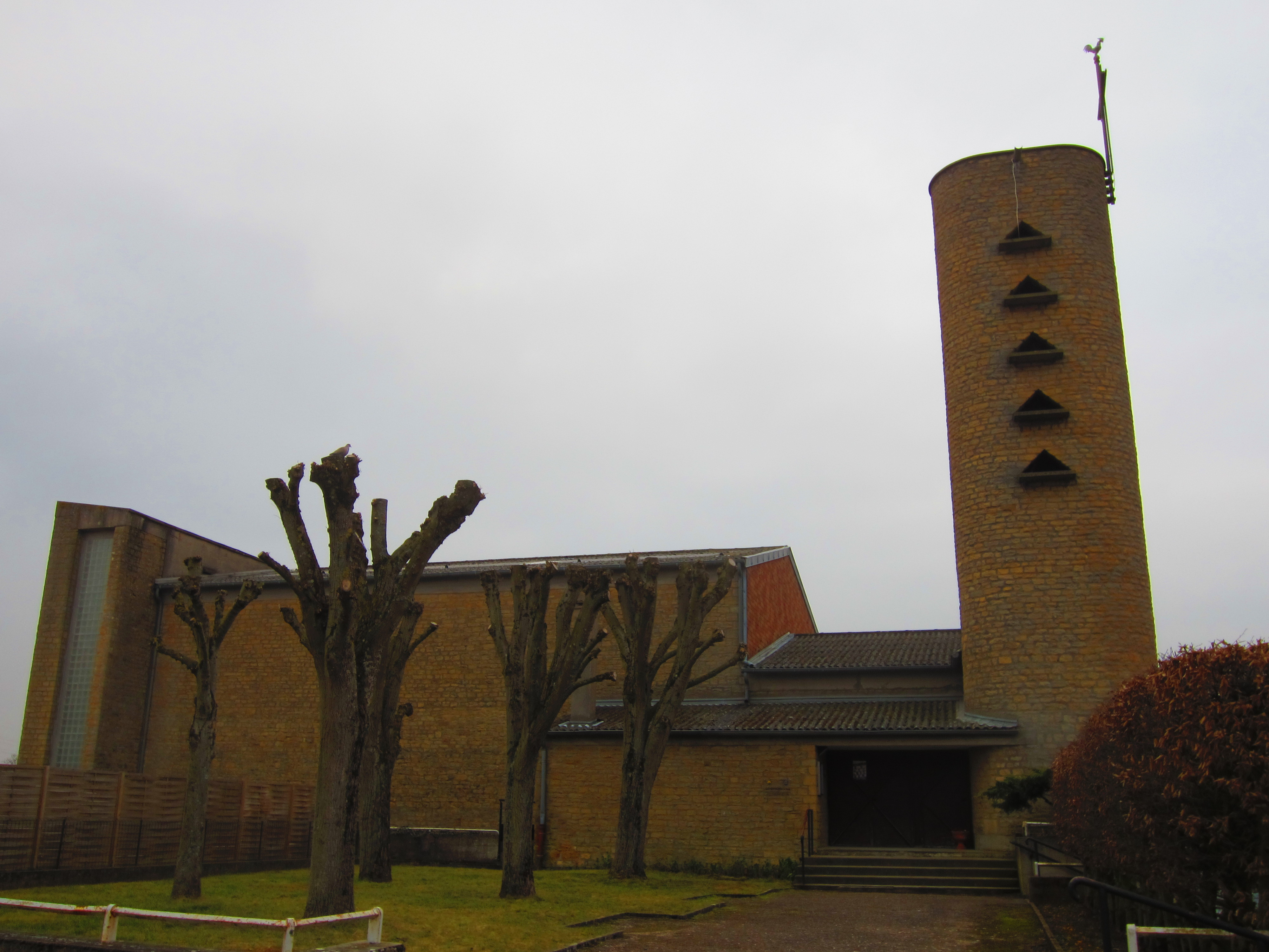 church Notre-Dame-de-la-Nativité Fleury (Moselle)